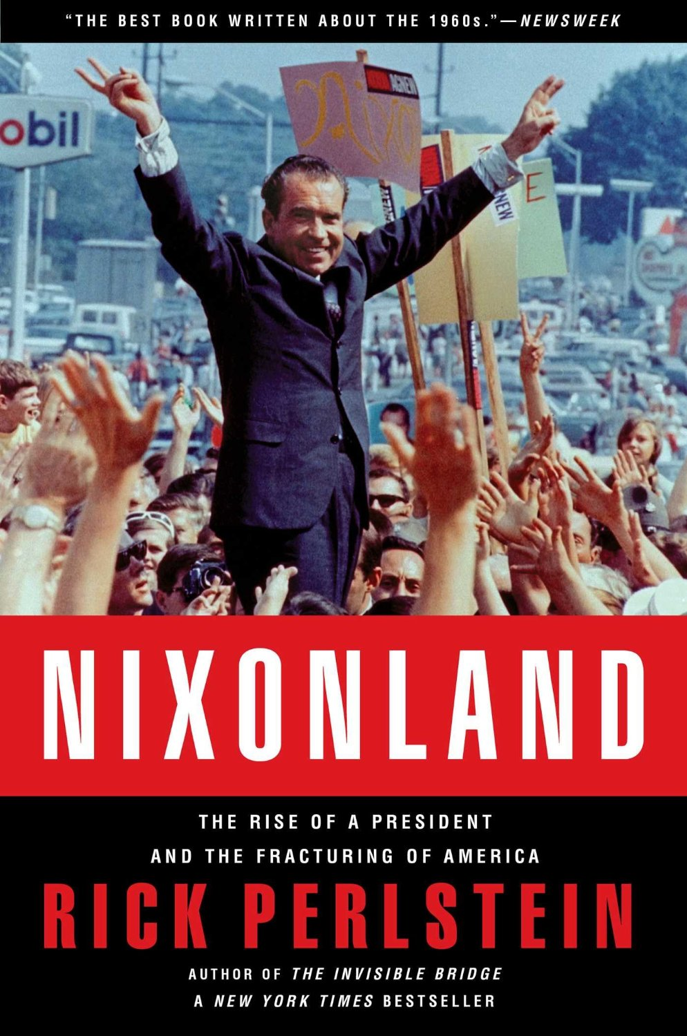 The front cover of the first trade paperback edition of Nixonland by Rick Perlstein. This edition was published in April 2009 by Scribner, ISBN-13: 978-0-7432-4302-5. The cover features the photo "Richard M. Nixon campaign 1968" taken by Oliver F. Atkins while employed by the National Archives and Records Service.